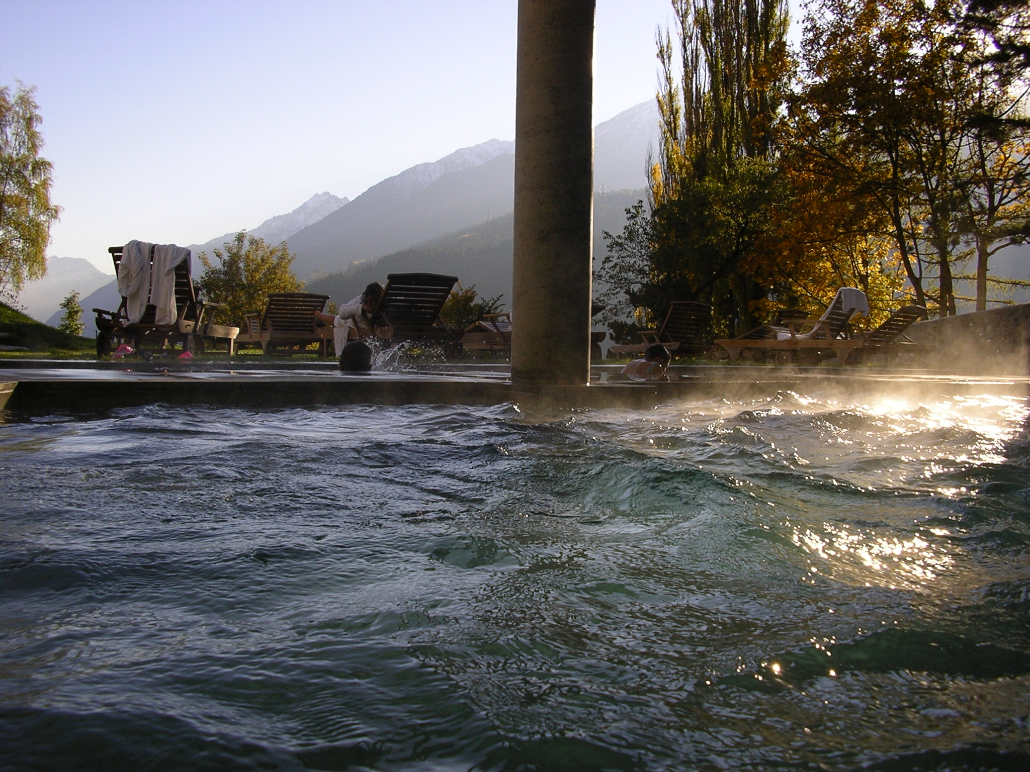 Bagni Nuovi open air thermal swimmingpool